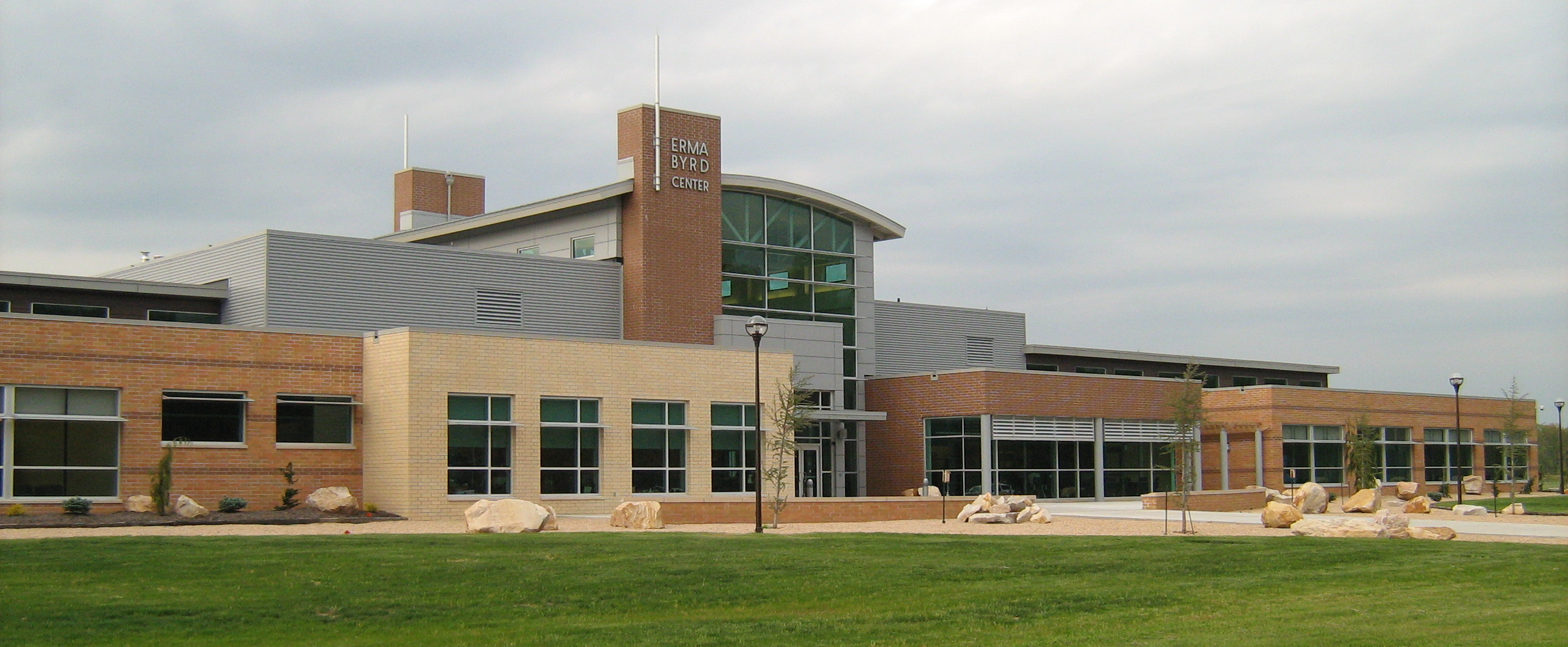 The Erma Byrd Higher Education Center Center located in Beckley, West Virginia (next to Interstate 64 and the Airport Road exit)